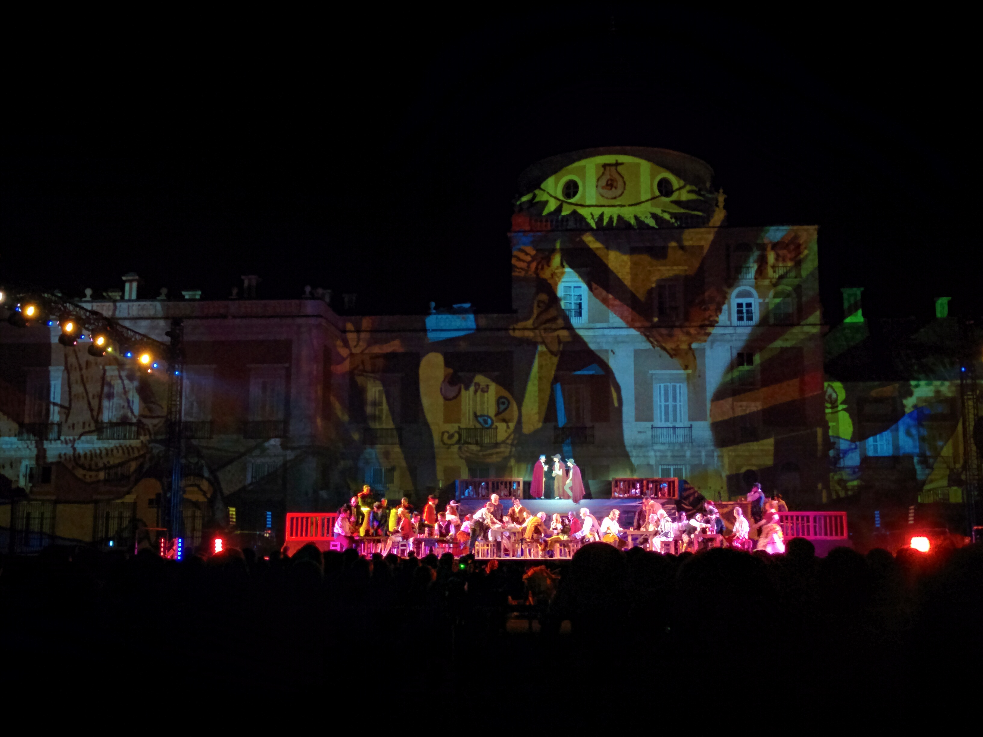 This is a photography of a Folklore festival in Spain (Wikidata id Q23199370).